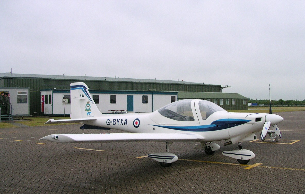 Grob Tutor and hangar at RAF Woodvale, Merseyside, England.